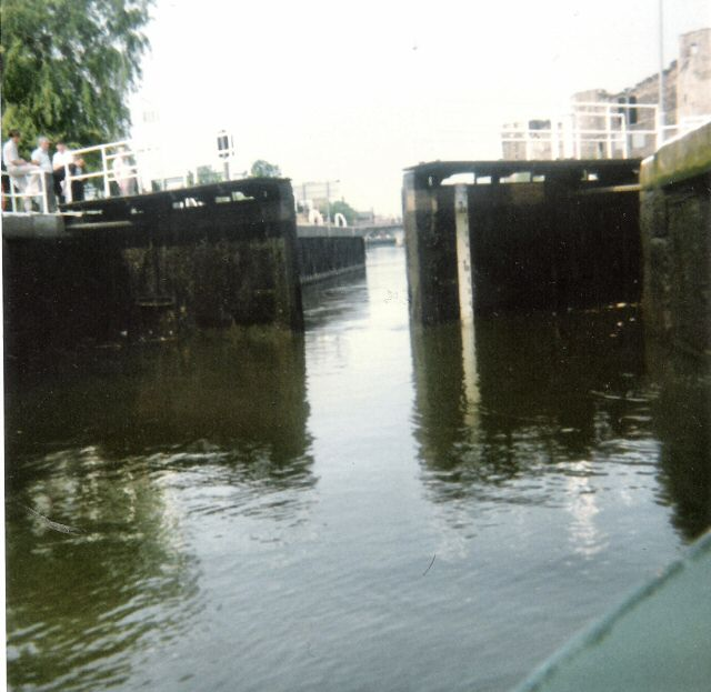 Newark Locks The Town Locks at Newark on Trent.